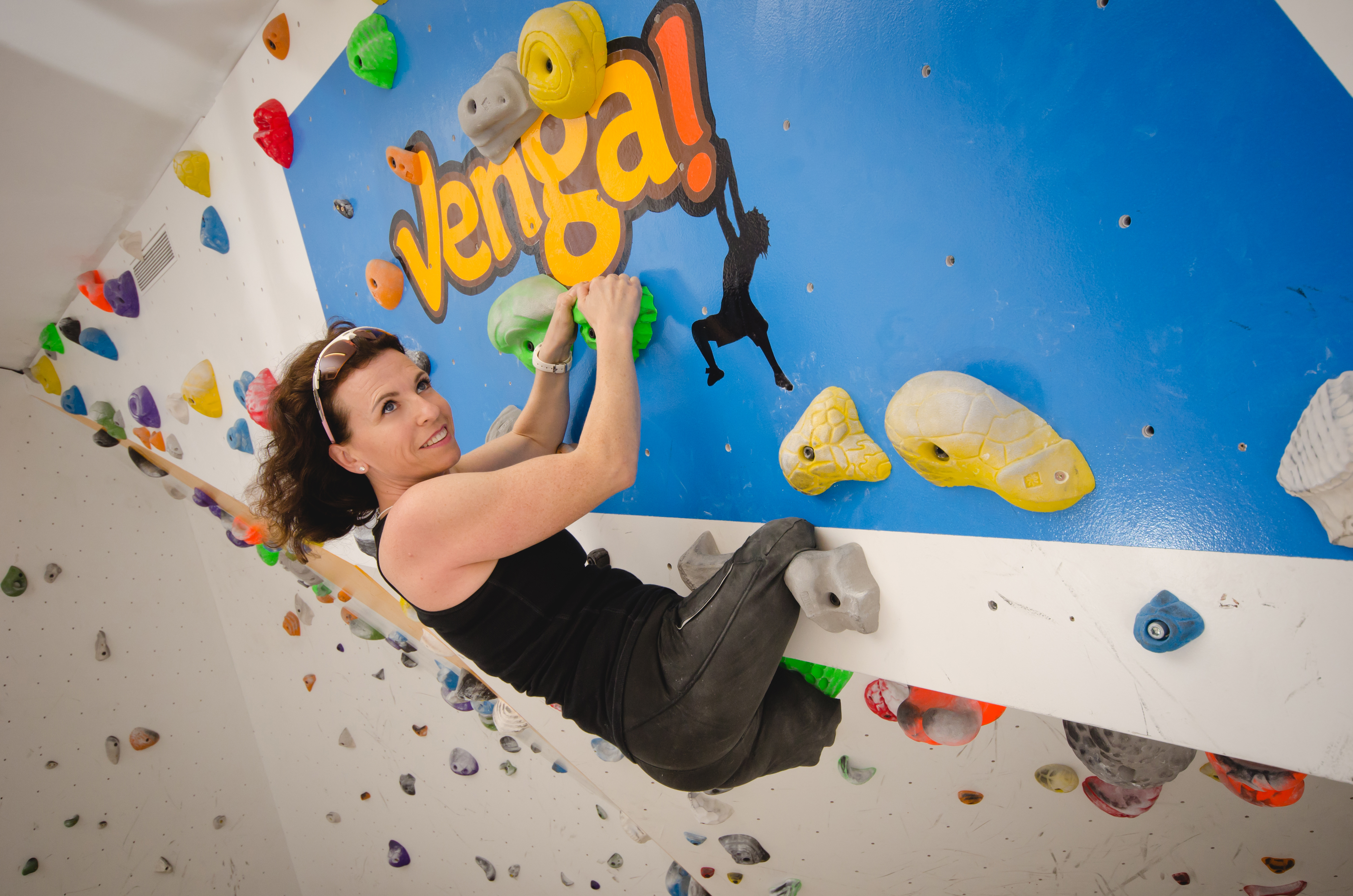 Pascale Bercovitch on the climbing wall, Venga club, Tel aviv